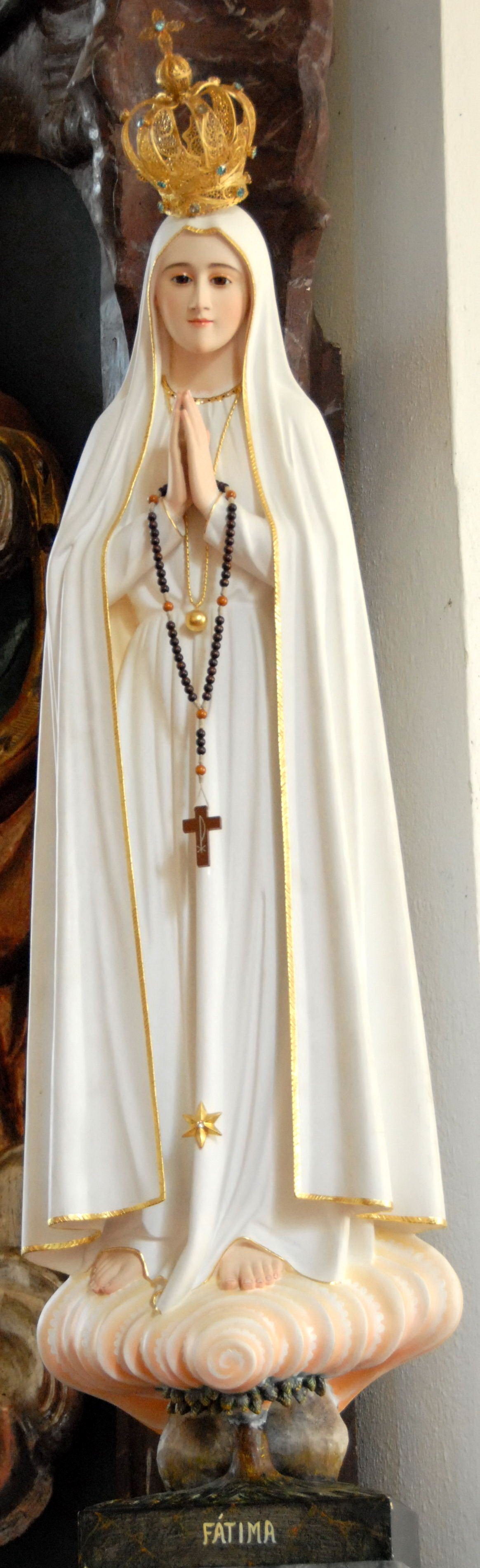 Statue of Fátima in the subsidiary and pilgrimage church «Seven Sorrows of Mary» in Freudenberg, market town Moosburg, district Klagenfurt Land, Carinthia, Austria, EU